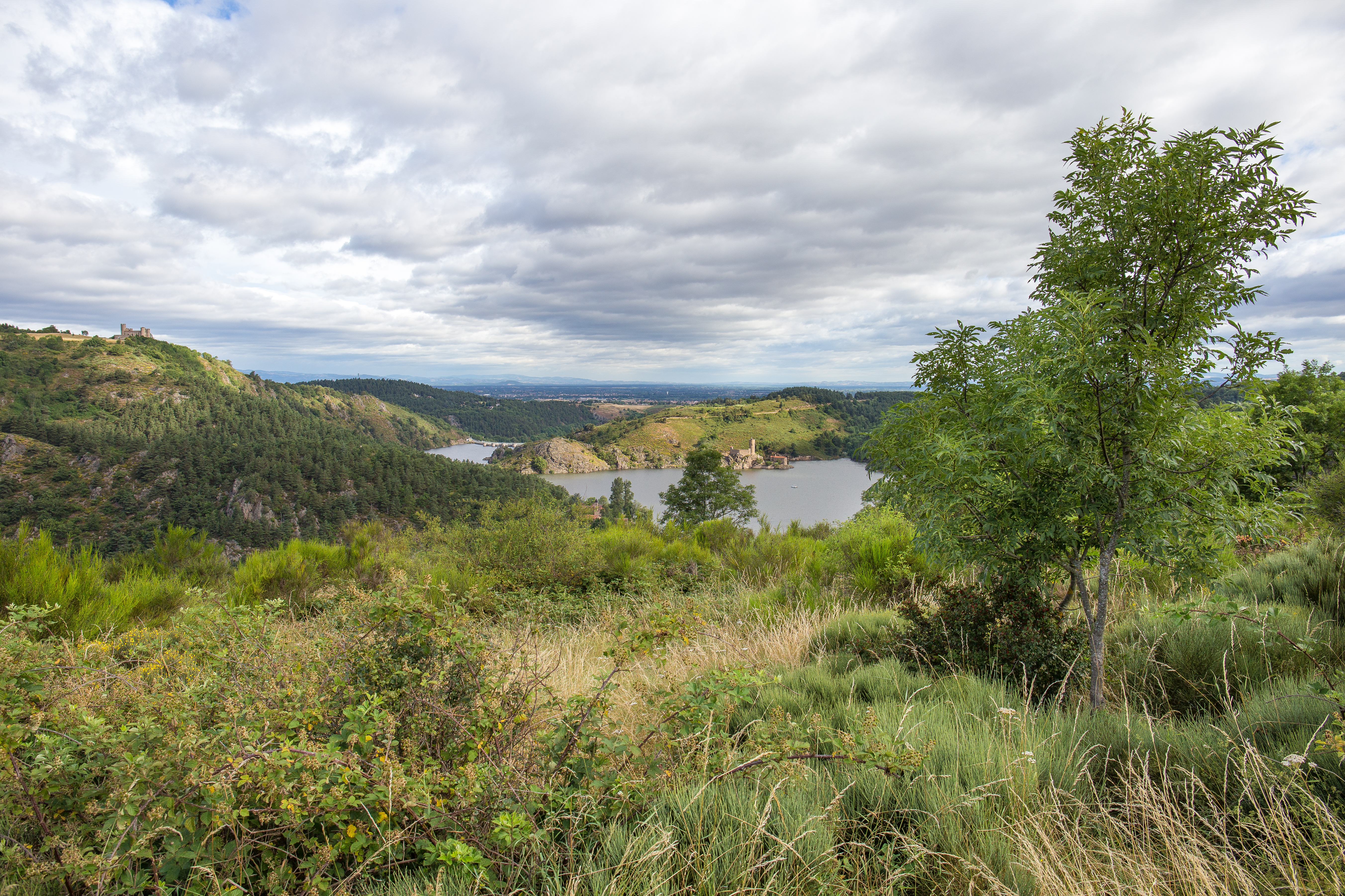 Grangent Castle and the dam, from the Condamine Plateau, Loire.